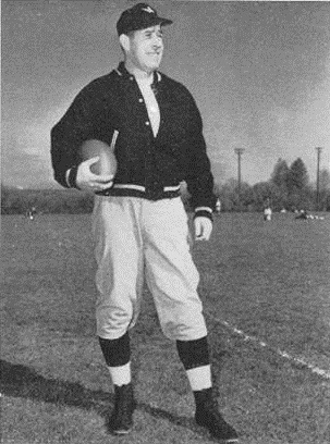 Abe Stuber, University of Washington assistant football caoch